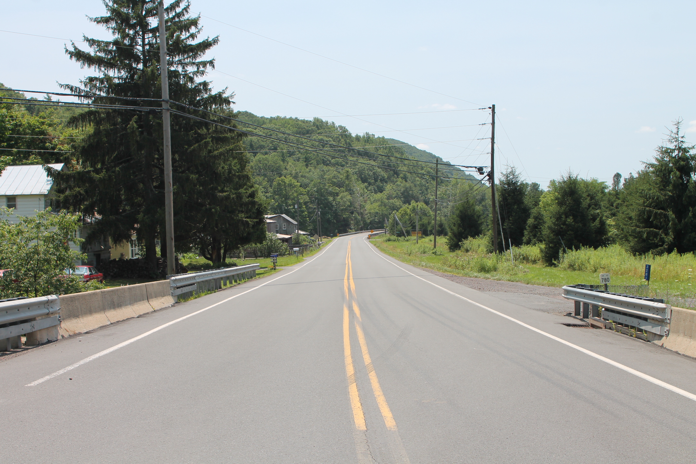 Pennsylvania Route 42 north of Millville